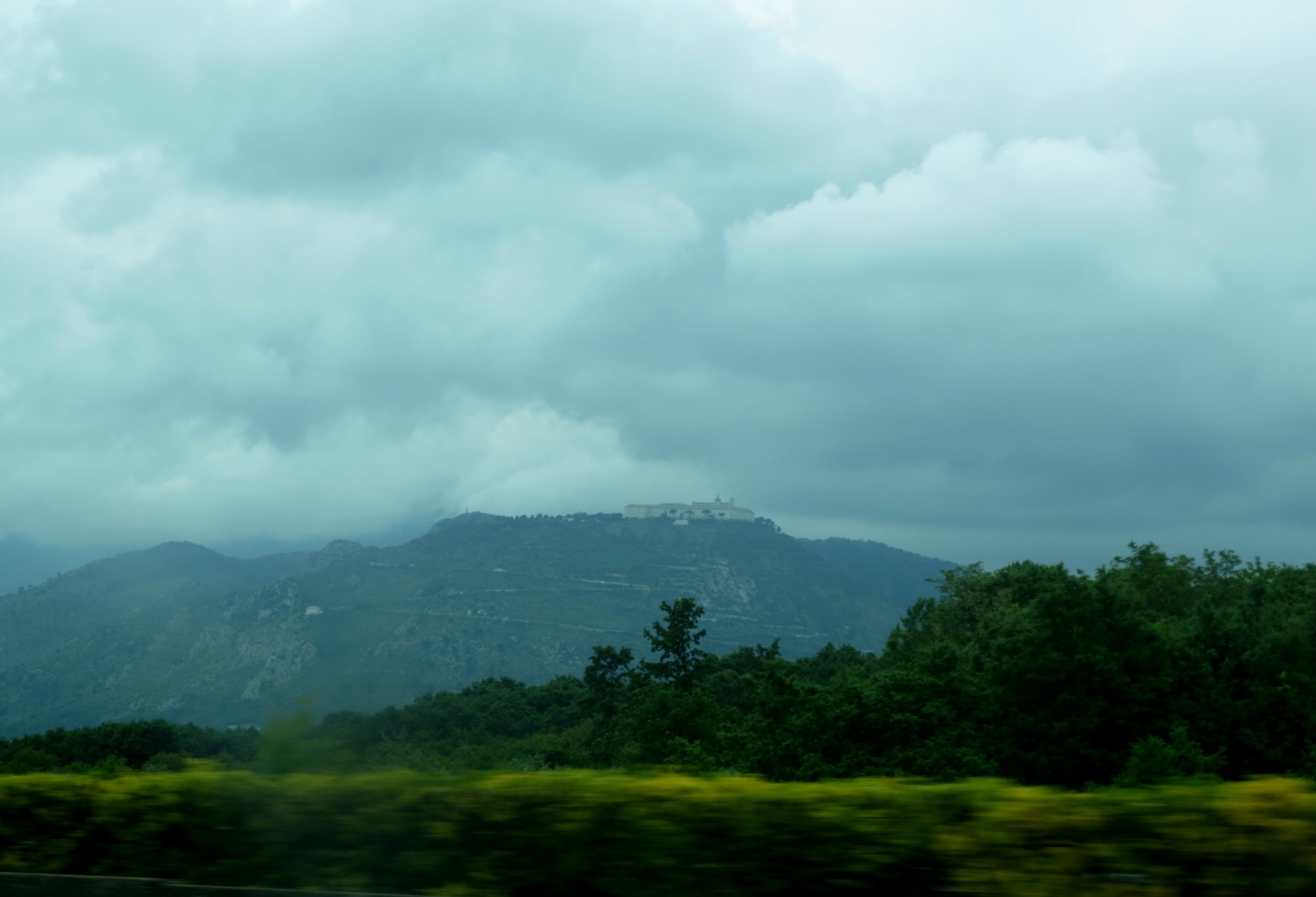 Monte Cassino position above valley, as seen from Rome - Naples highway